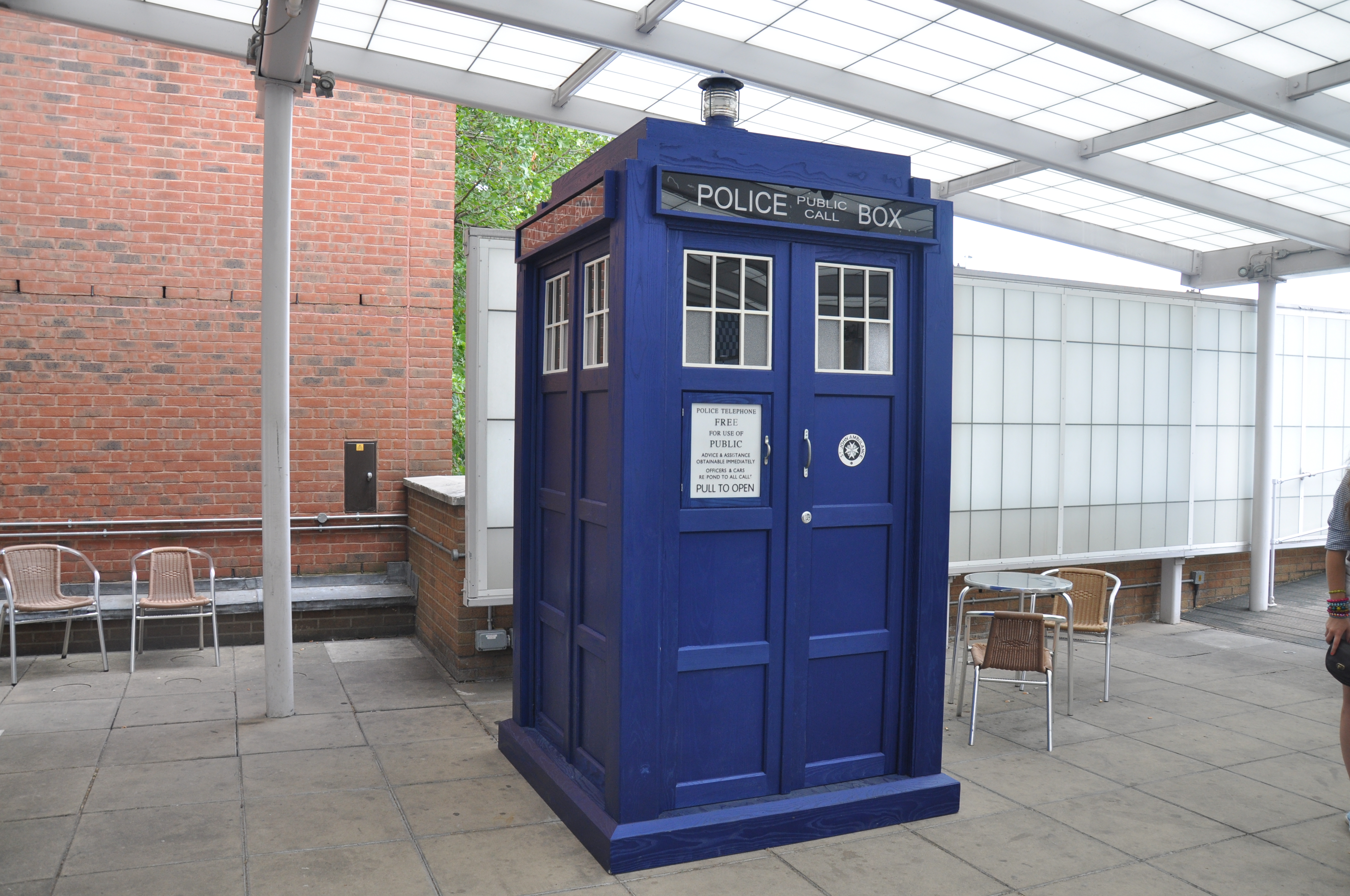 The TARDIS, in front of the BBC Television Center. The uploader was assured that this was the old "Original Tardis".